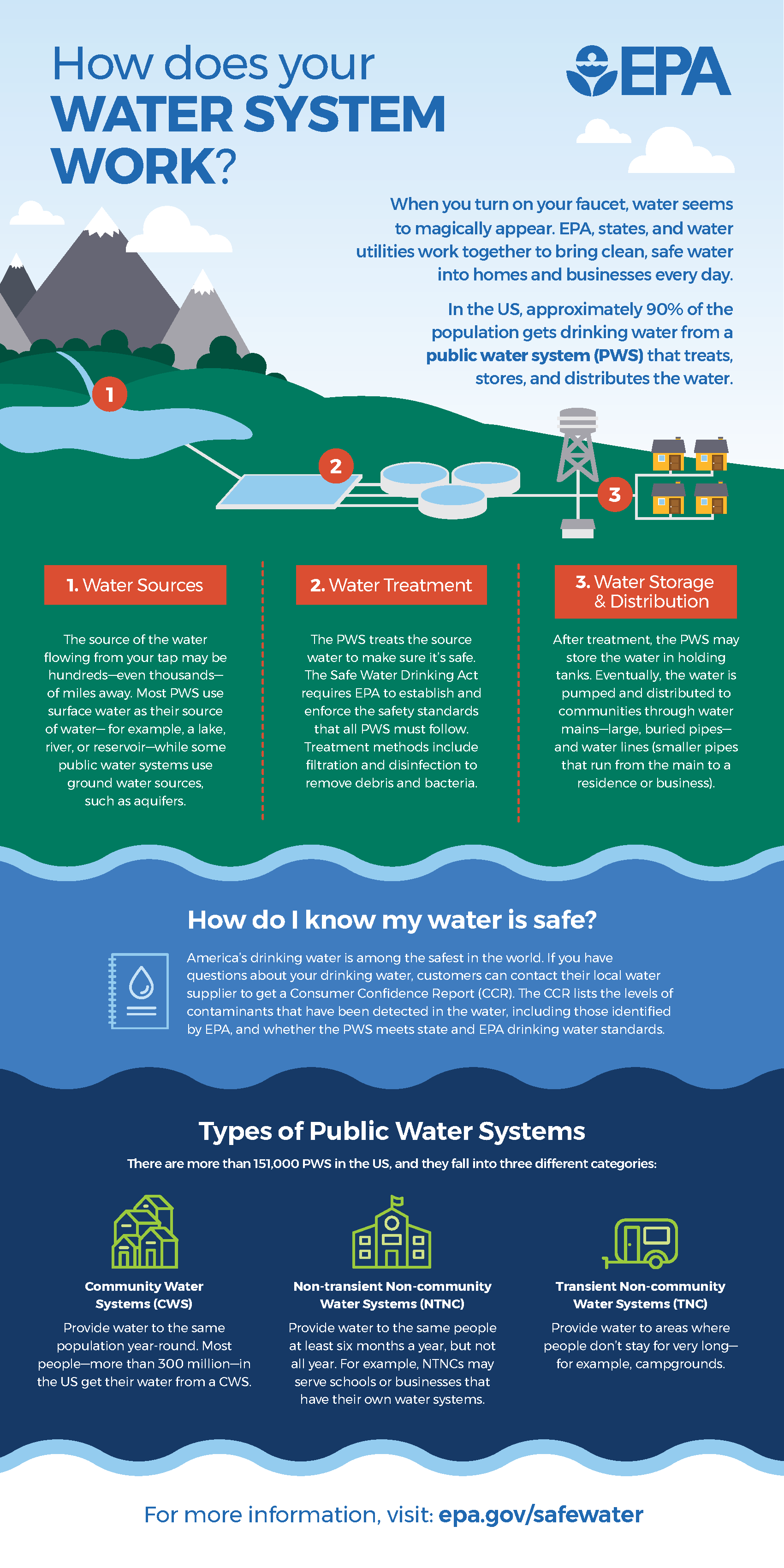 Poster, "How Does Your Water System Work?"